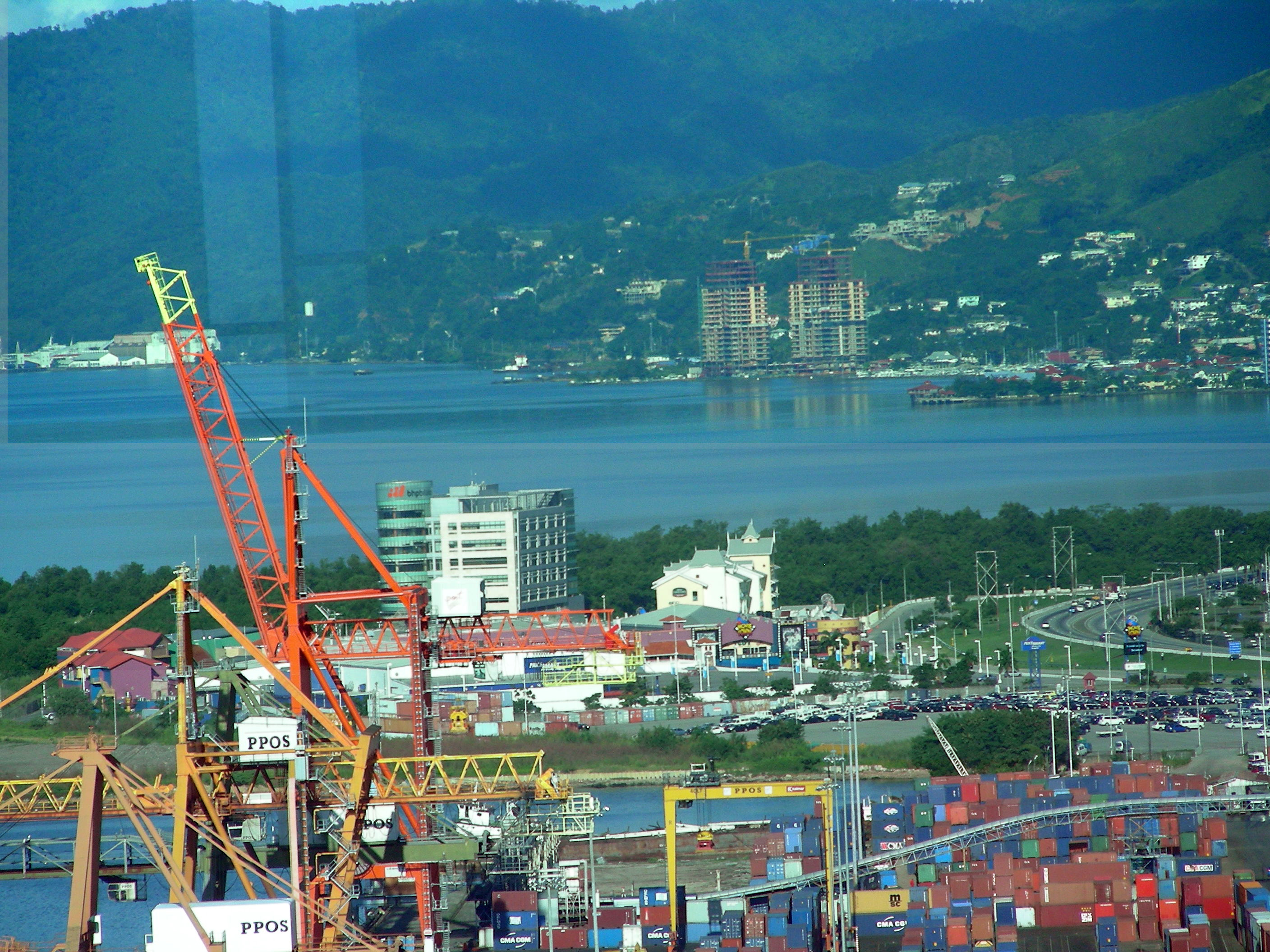 West Port of Spain taken from level 23 Tower C, POSIWC